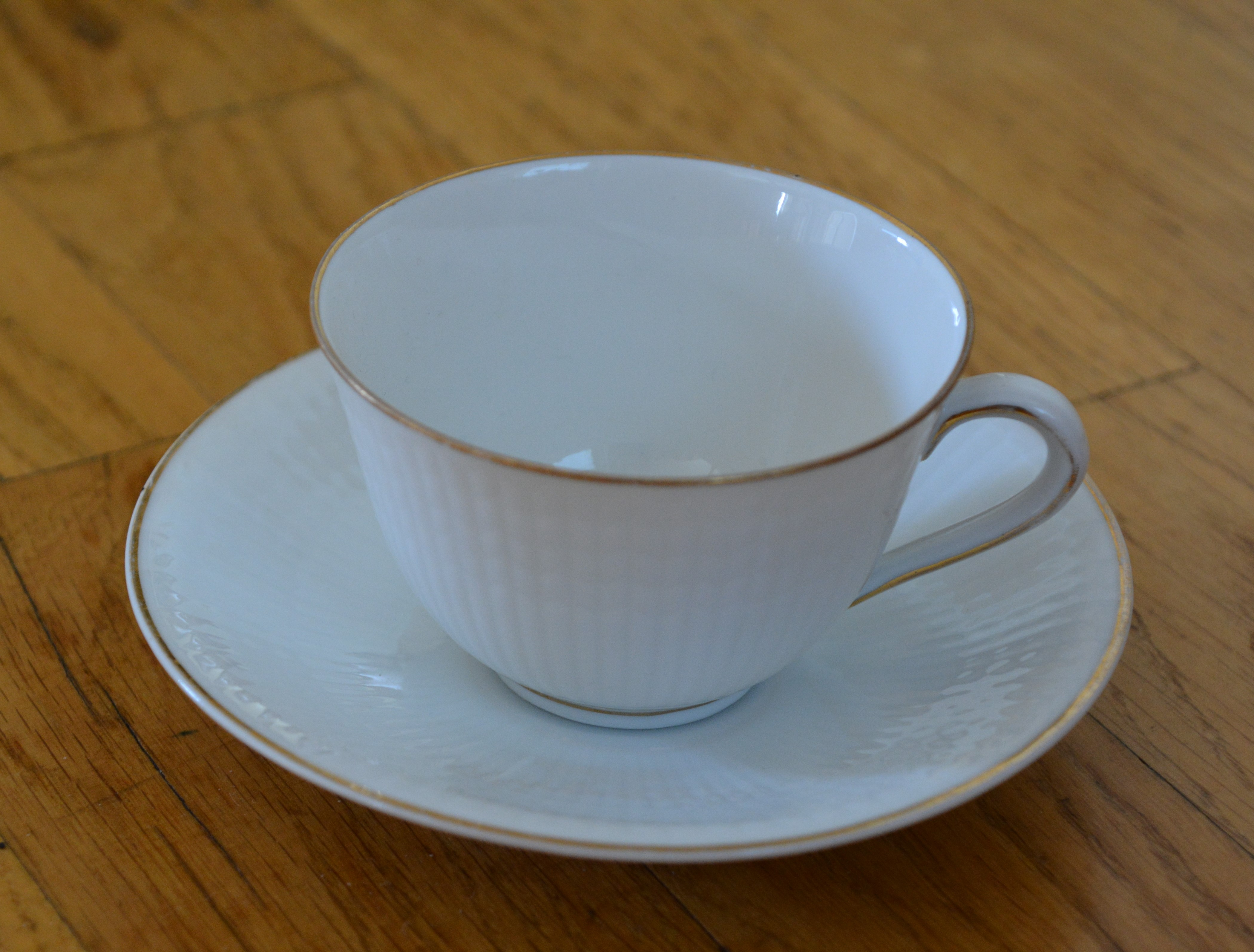 Kaffekopp ur den ursprungliga Nationalservisen